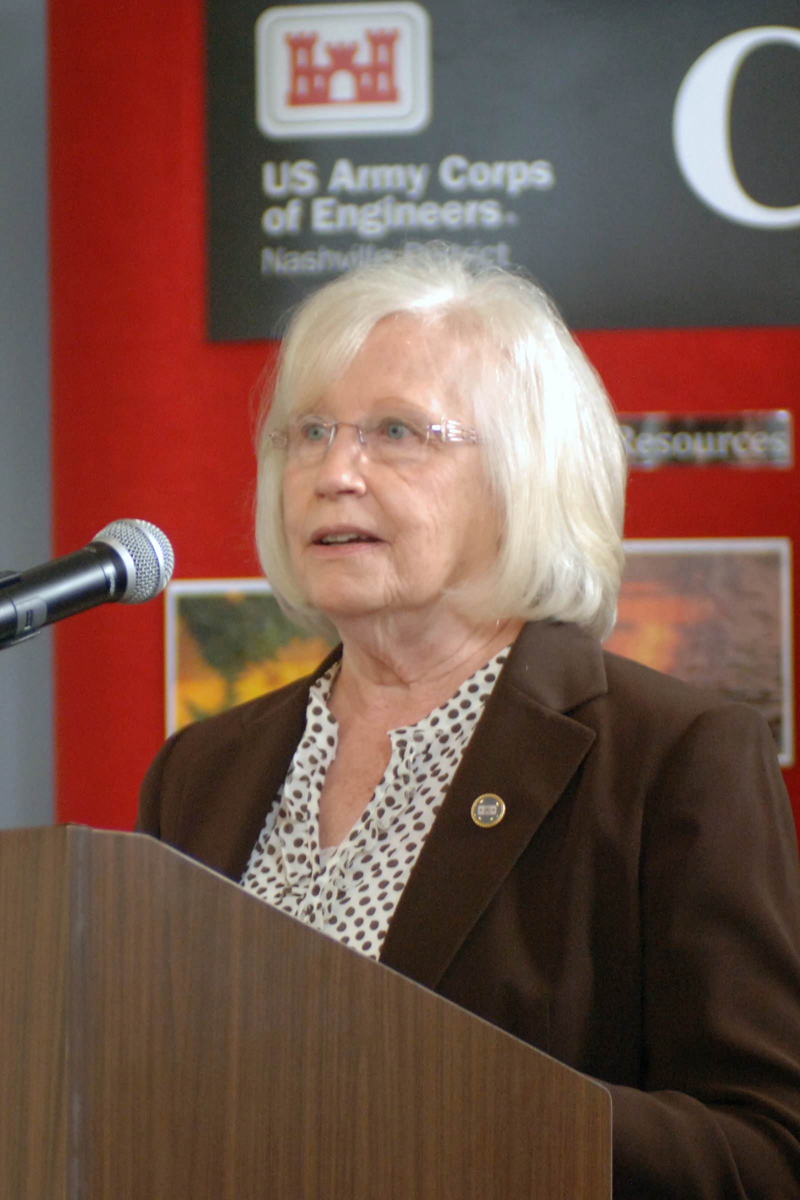 State Senator Mae Beavers spoke about the support and team effort of the Nashville District Corps of Engineers at the Cordell Hull Lake Visitor's Center ribbon cutting ceremony on July 20, 2012.